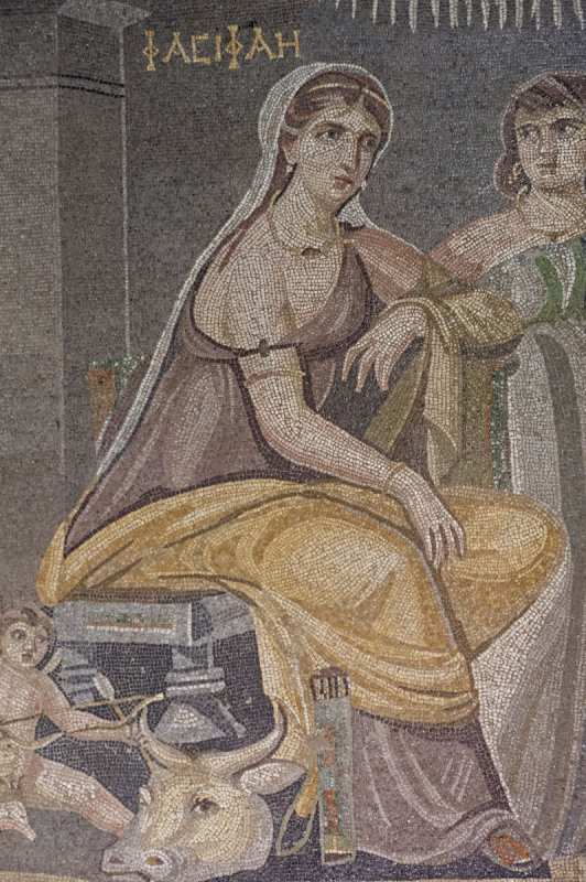 PASIPHAE, DAIDALOS Y LA VACA DE MADERA Museum Collection: Gaziantep Museum, Gaziantep, Turquía La reina Pasiphae sentada en un trono a la que asiste una doncella y el viejo Trophos (¿su nodriza?) Recibe la vaca de madera del artesano Daidalos. Eros, el dios alado del amor, juega con la cabeza de la bestia hecha a mano debajo de su trono.